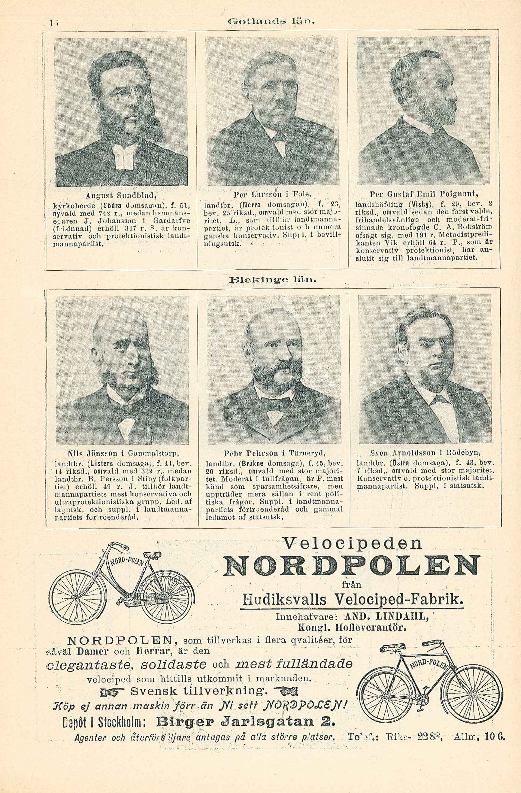 Page 16 of an album featuring portraits of all the members of the second chamber of the Swedish parliament (Sveriges riksdag) elected in 1897. This page featuring parts of the members representing the counties of Gotland and Blekinge.